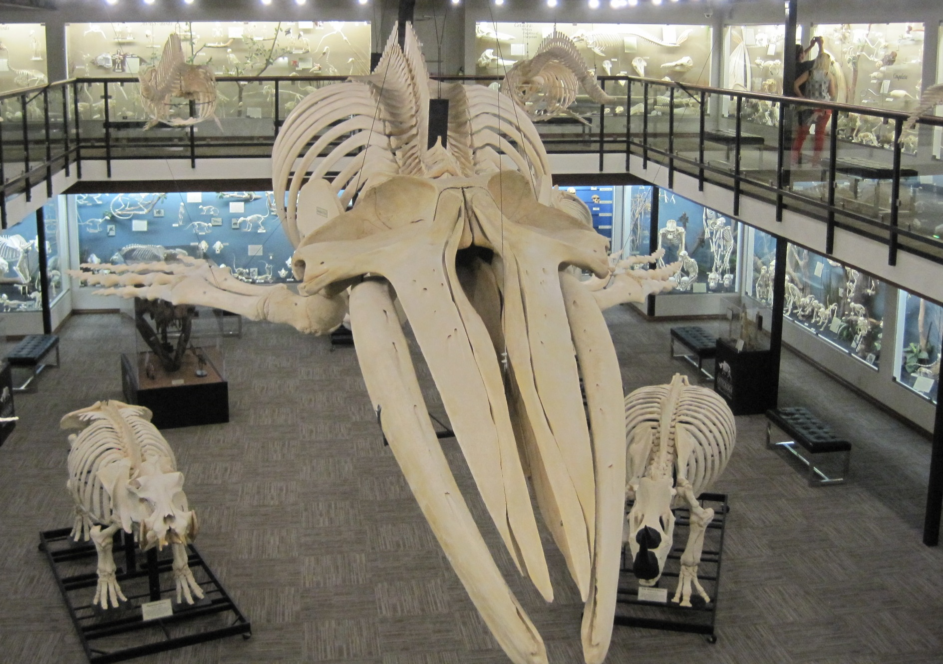 Exhibits at the Museum of Osteology, Oklahoma City.